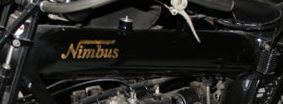 Tank of a Nimbus motorcycle